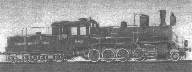 Russian locomotive Sh (Ш), built at Briansk (Type 18), of the Vladikaukaz Railway.